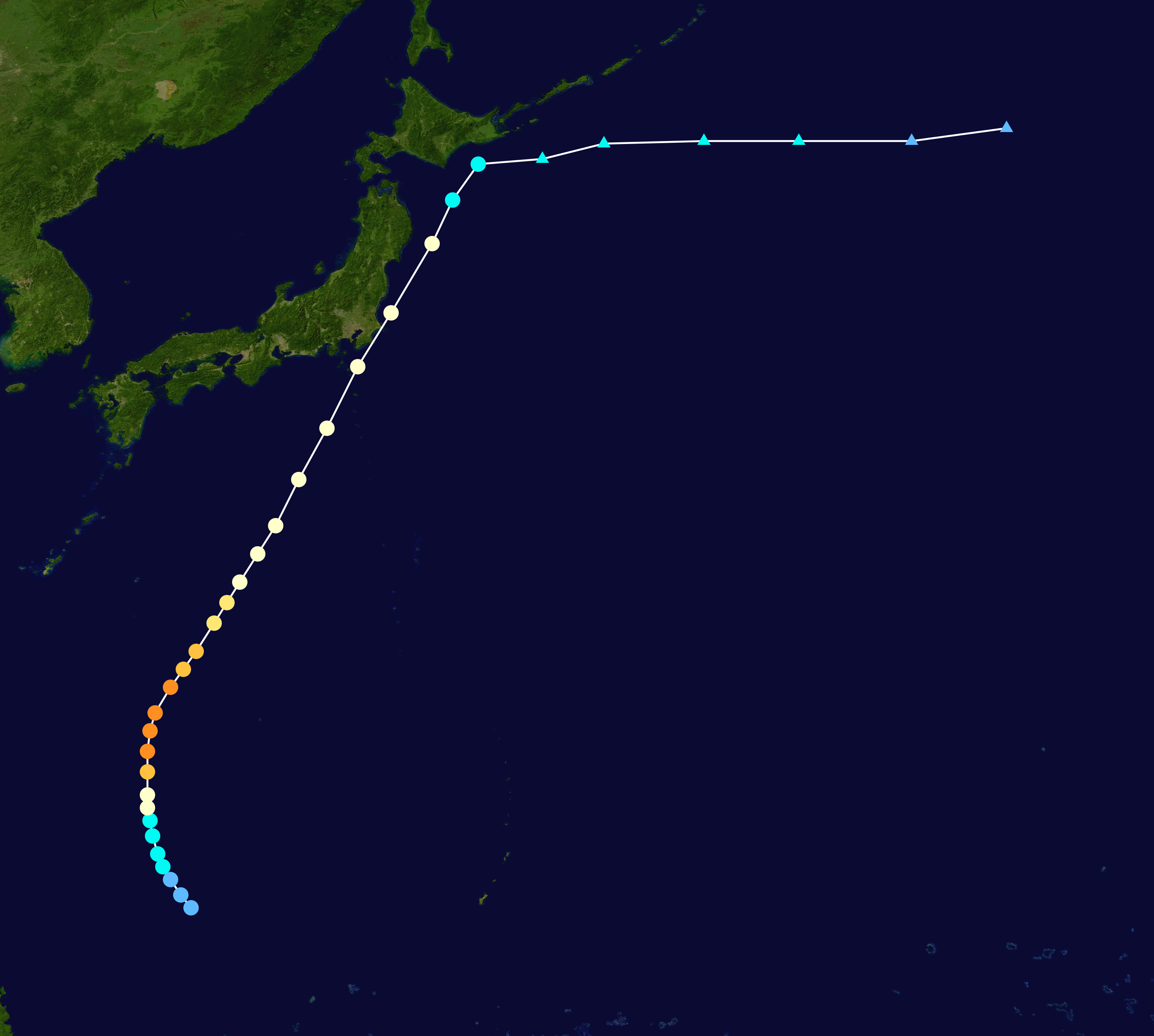 Track map of Typhoon Kirogi of the 2000 Pacific typhoon season. The points show the location of the storm at 6-hour intervals. The colour represents the storm's maximum sustained wind speeds as classified in the Saffir–Simpson scale (see below), and the shape of the data points represent the nature of the storm, according to the legend below. Saffir–Simpson scale Tropical depression≤38 mph≤62 km/h Category 3111–129 mph178–208 km/h Tropical storm39–73 mph63–118 km/h Category 4130–156 mph209–251 km/h Category 174–95 mph119–153 km/h Category 5≥157 mph≥252 km/h Category 296–110 mph154–177 km/h Unknown Storm type Tropical cyclone Subtropical cyclone Extratropical cyclone / Remnant low / Tropical disturbance / Monsoon depression